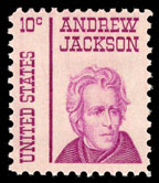 1967 stamp honoring Andrew Jackson